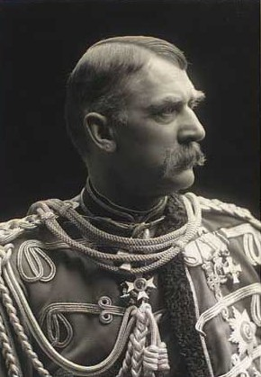 Friedrich Løvenfeldt (1841-1913), Danish Colonel and courtier